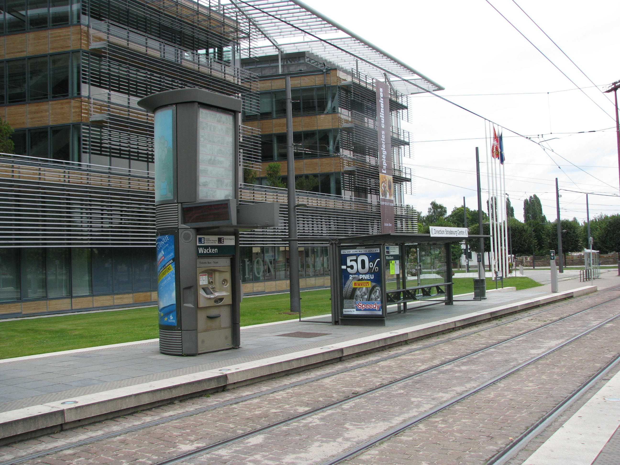 Tramways in Strasbourg